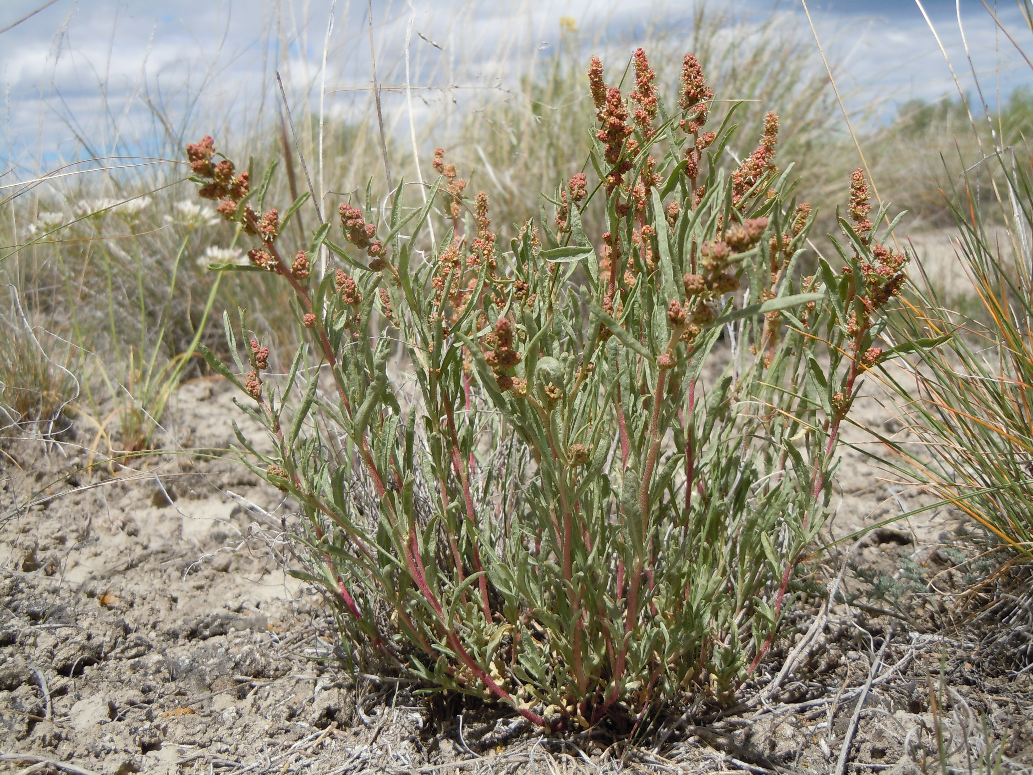 Atriplex gardneri var. falcata in Butte Co., Idaho, USA